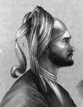 Prince Gegi Dadeshkeliani from Etseri